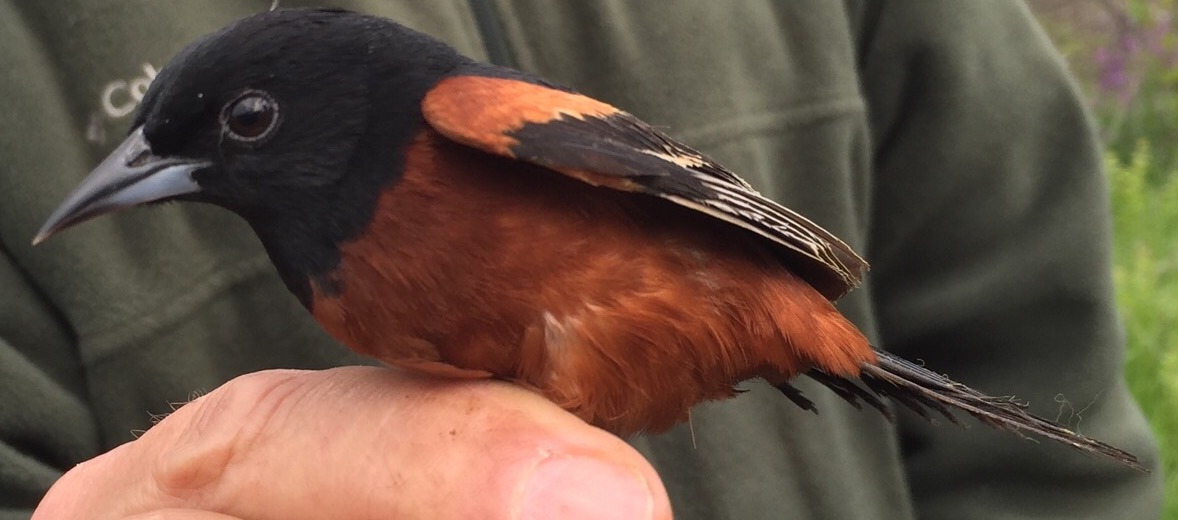 An up close view of an orchard oriole